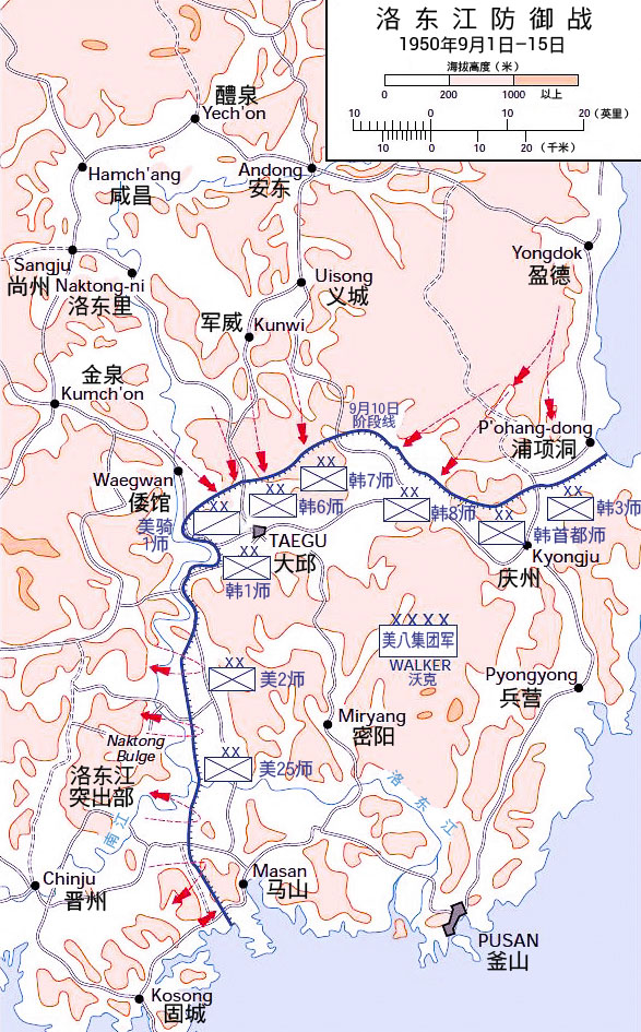 Map of the Naktong Defense lines, September 1950.Localization work of: File:Naktong Defense.jpg